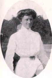 Agnes Mary "Agatha" Morton (1872-1952), English tennis player, Wimbledon runners-up in 1908 and 1909 (winner of the all-comers competition)